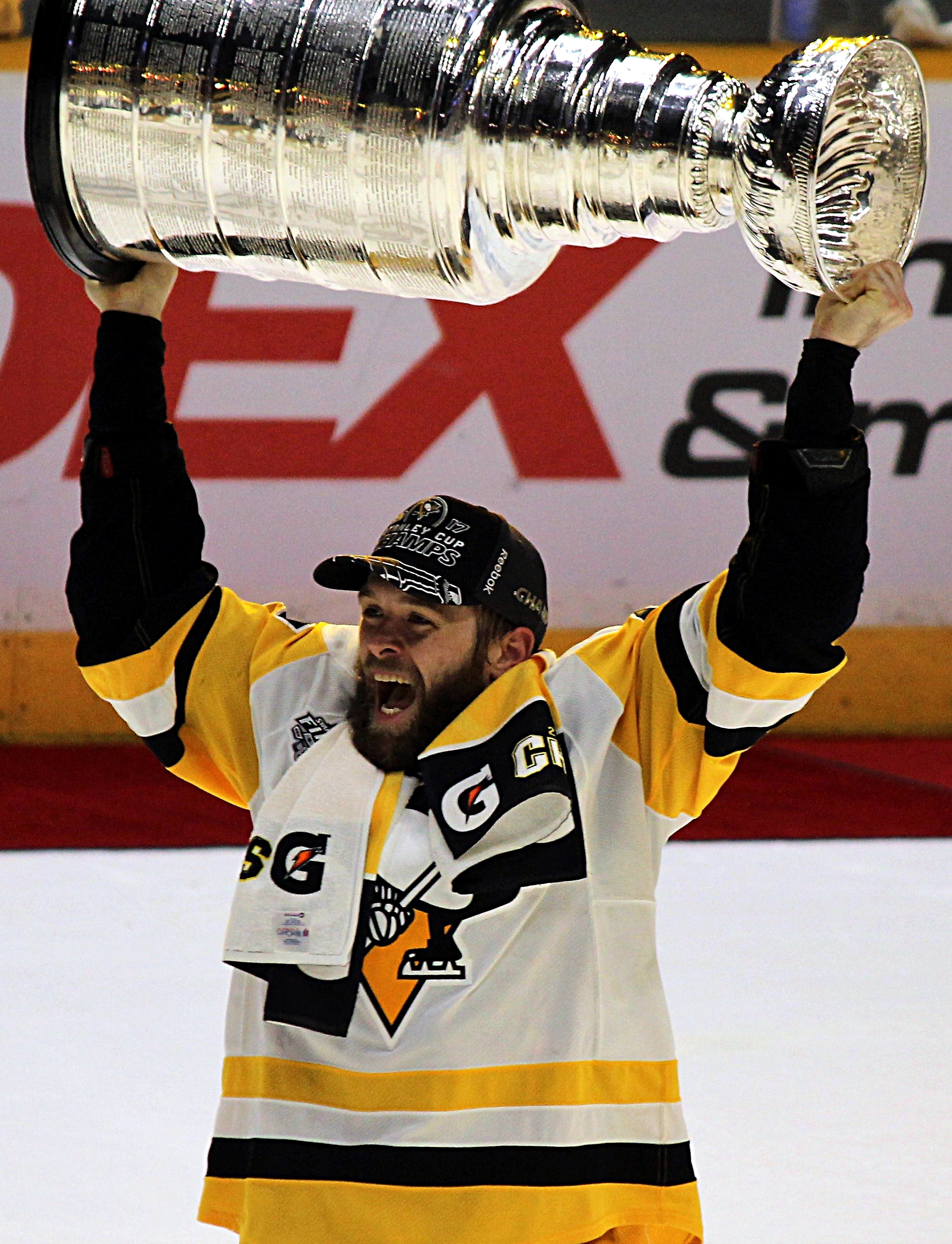 Pittsburgh Penguins forward Bryan Rust raises the Stanley Cup, June 11, 2017, at Bridgestone Arena in Nashville, TN.